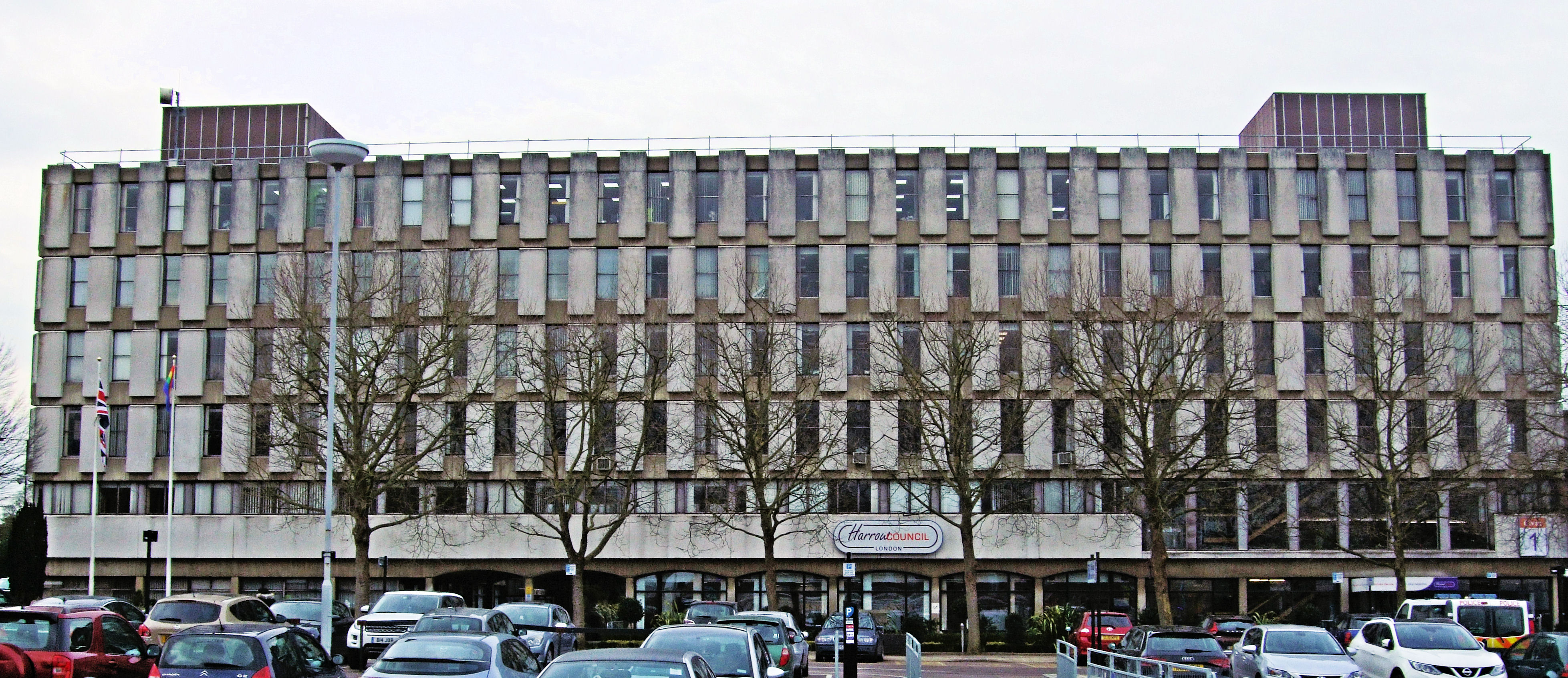 Harrow Civic Centre, Harrow, England.